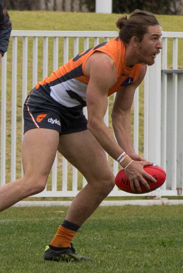 Dylan Addison scoops up the ball during the UWS Giants vs. Eastlake NEAFL match at Robertson Oval on 1 August 2015.